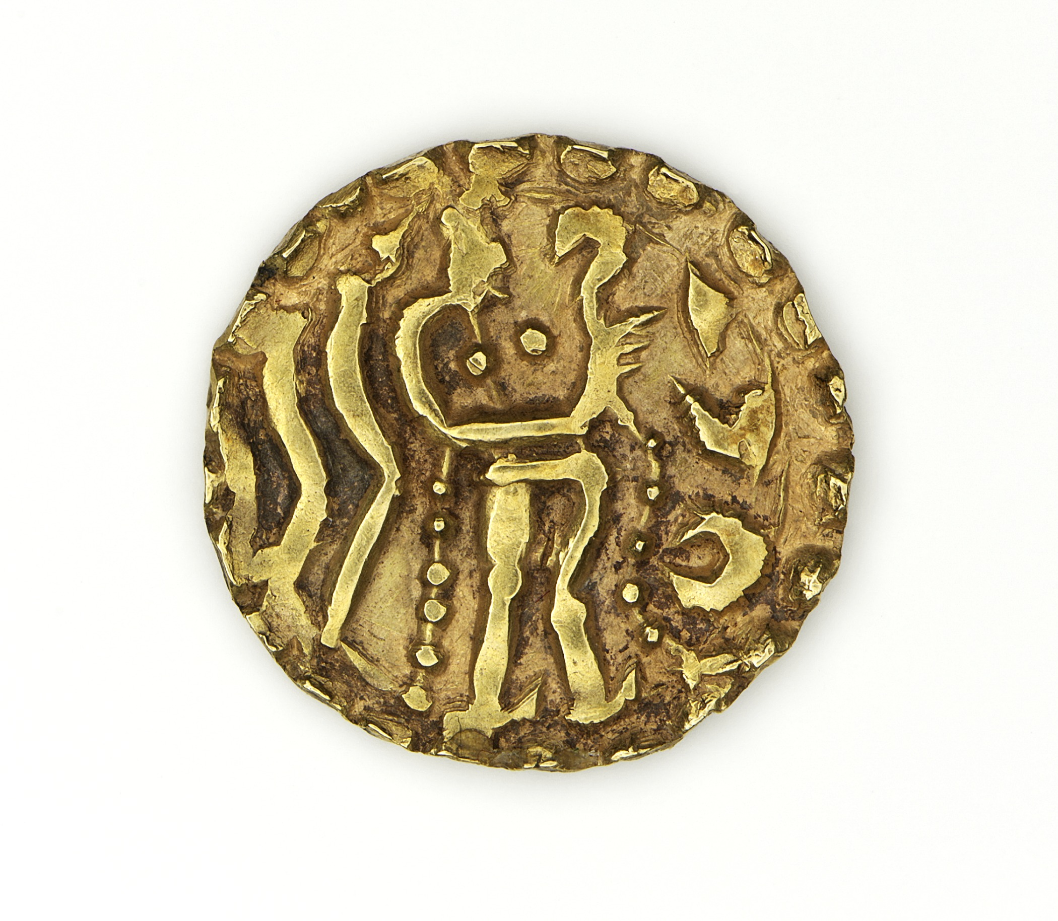 Bangladesh, circa 670 Tools and Equipment; coins Gold Gift of Anna Bing Arnold and Justin Dart (M.77.55.1) South and Southeast Asian Art